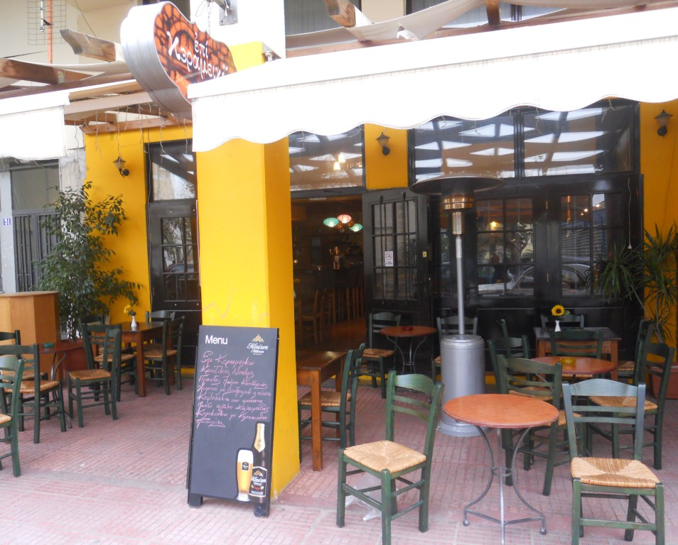 Epi Kerameiko is a restaurant on Avdi Square in the Metaxourgeio neighborhood of Athens, Greece.